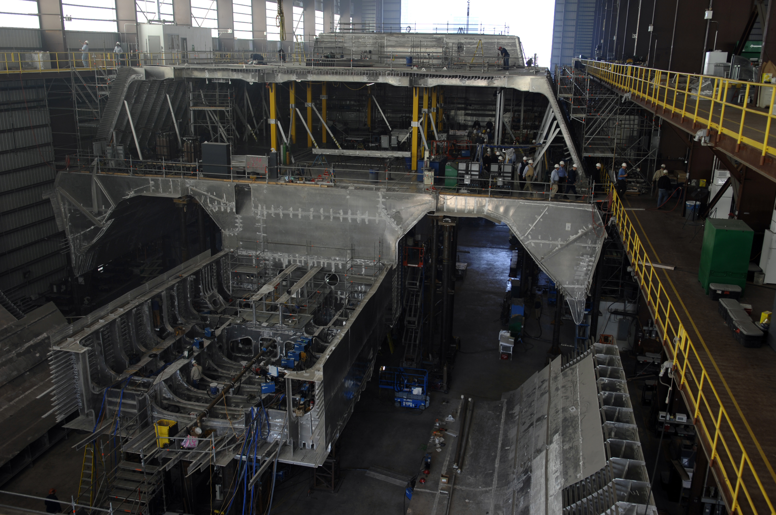 070309-N-3642E-160 MOBILE, Ala. - Secretary of the Navy (SECNAV), the Honorable Dr. Donald C. Winter, is guided off the aluminum hull of pre-commissioned ship Independence (LCS 2) during a tour of Austal Shipyards. Austal is one of three yards that has been contracted to build the littoral combat ship. The SECNAV toured the shipyard to further his understanding of the challenges facing the U.S. shipbuilding industry.